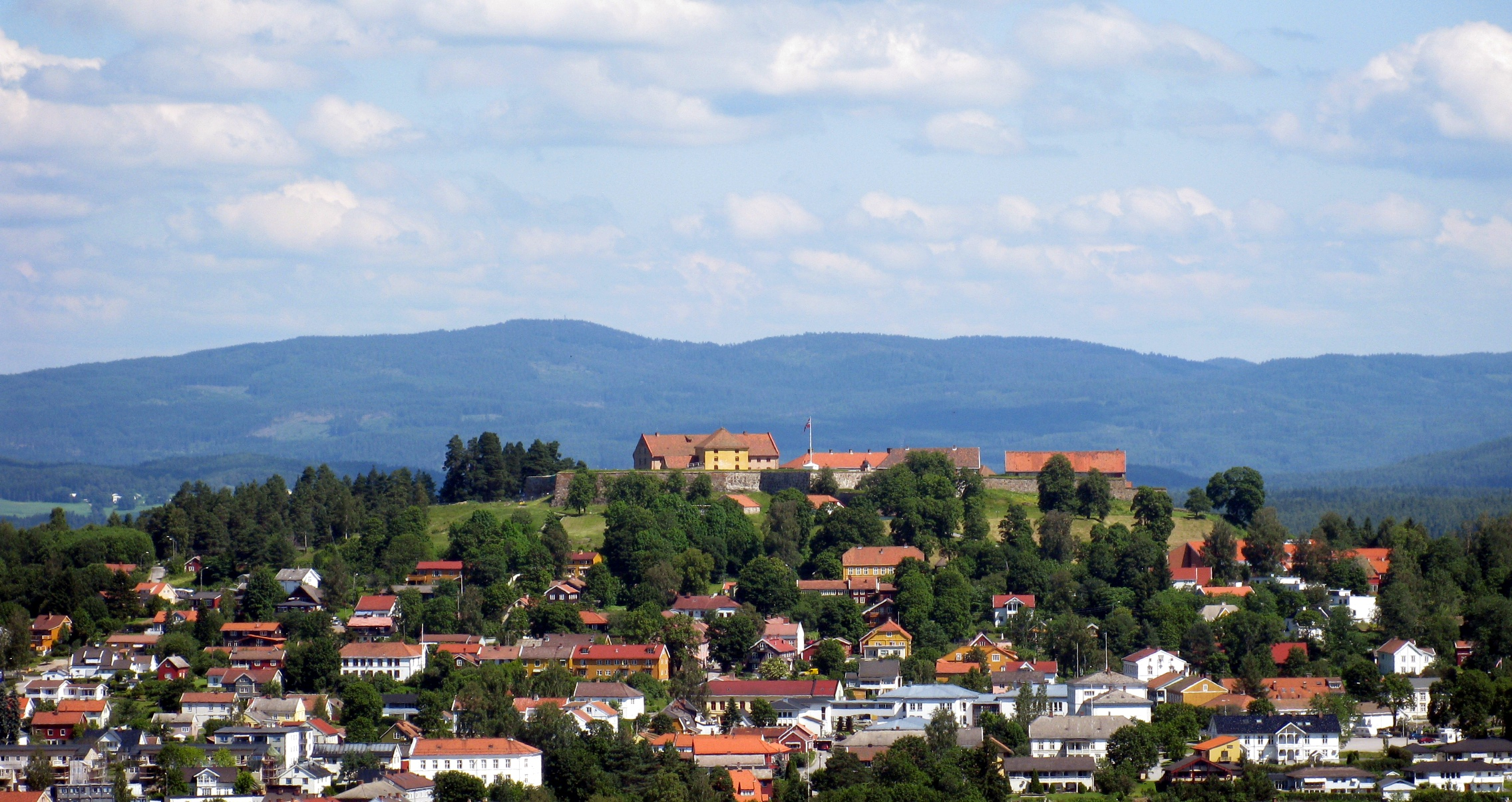 Tråstadberget in Kongsvinger with Kongsvinger Fortress and Øvrebyen. Taken from south.